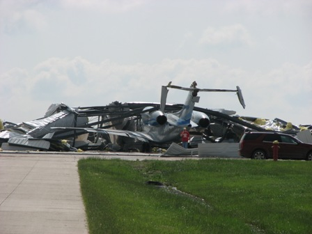 Damage at the Kearney, Nebraska local airport that was caused by a tornado on May 29, 2008 Courtesy of NWS Hastings